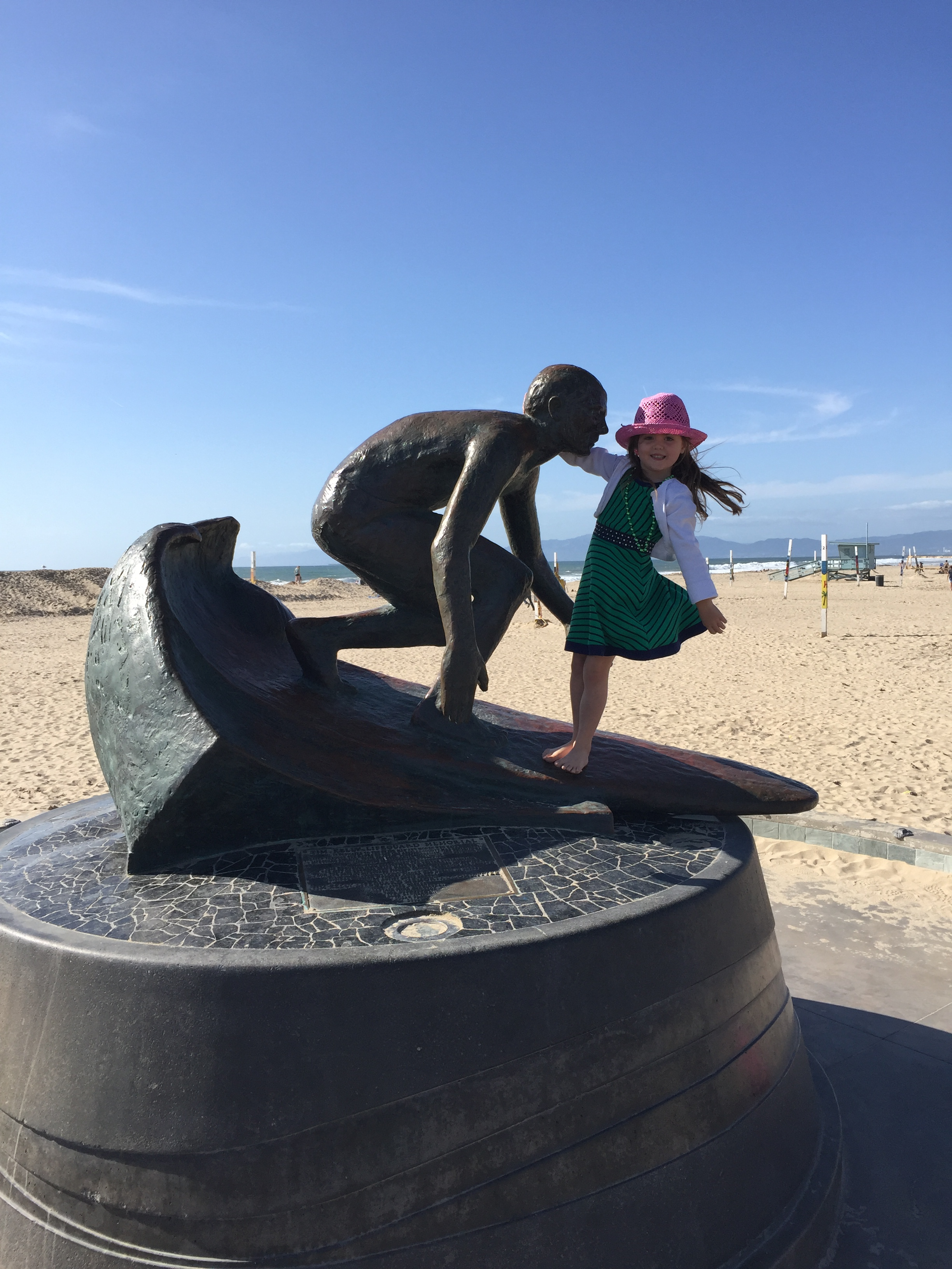 Hermosa Beach pier memorial statue